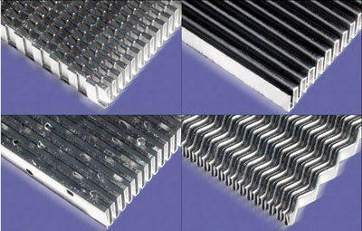 This photo shows the different types of fin structure for plate fin heat exchangers.